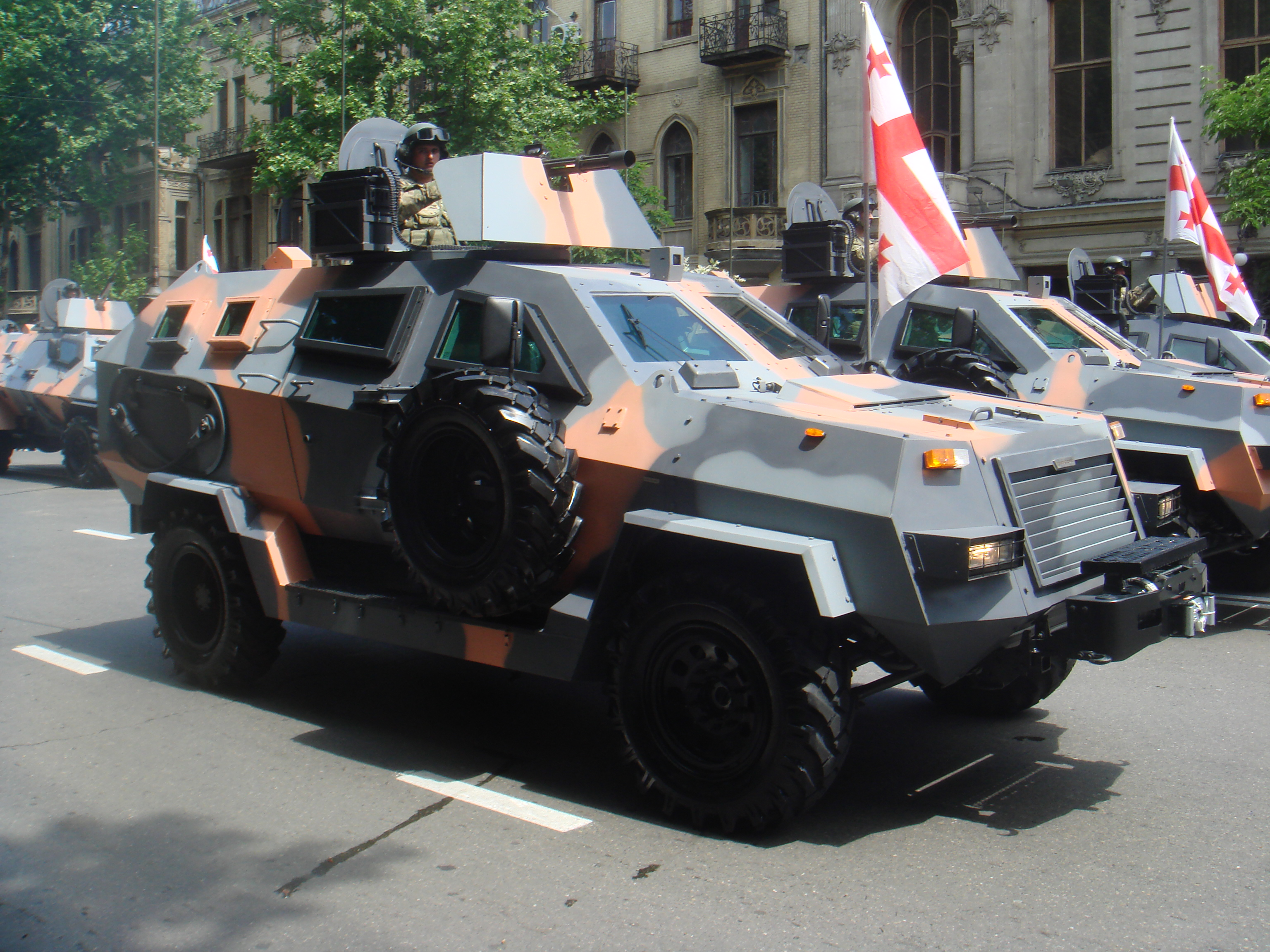 created this work entirely by myself.